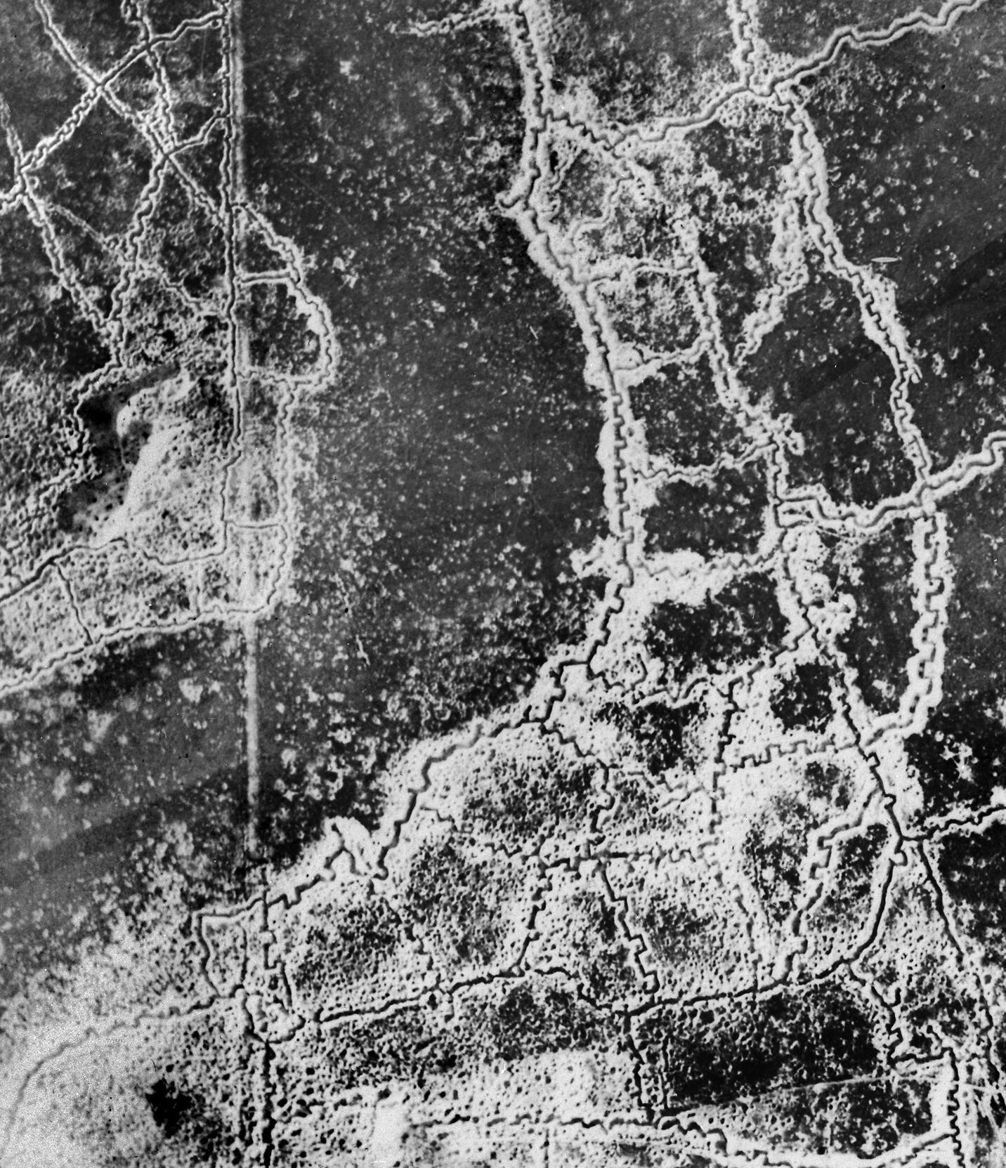 An aerial reconnaissance photograph of the opposing trenches and no-man's land between Loos and Hulluch in Artois, France, taken at 7.15 pm, 22 July 1917. German trenches are at the right and bottom, British trenches are at the top left. The vertical line to the left of centre indicates the course of a pre-war road or track. The location is Hill 70, attacked and taken between 15 and 25 August 1917 by the Canadian Corps.